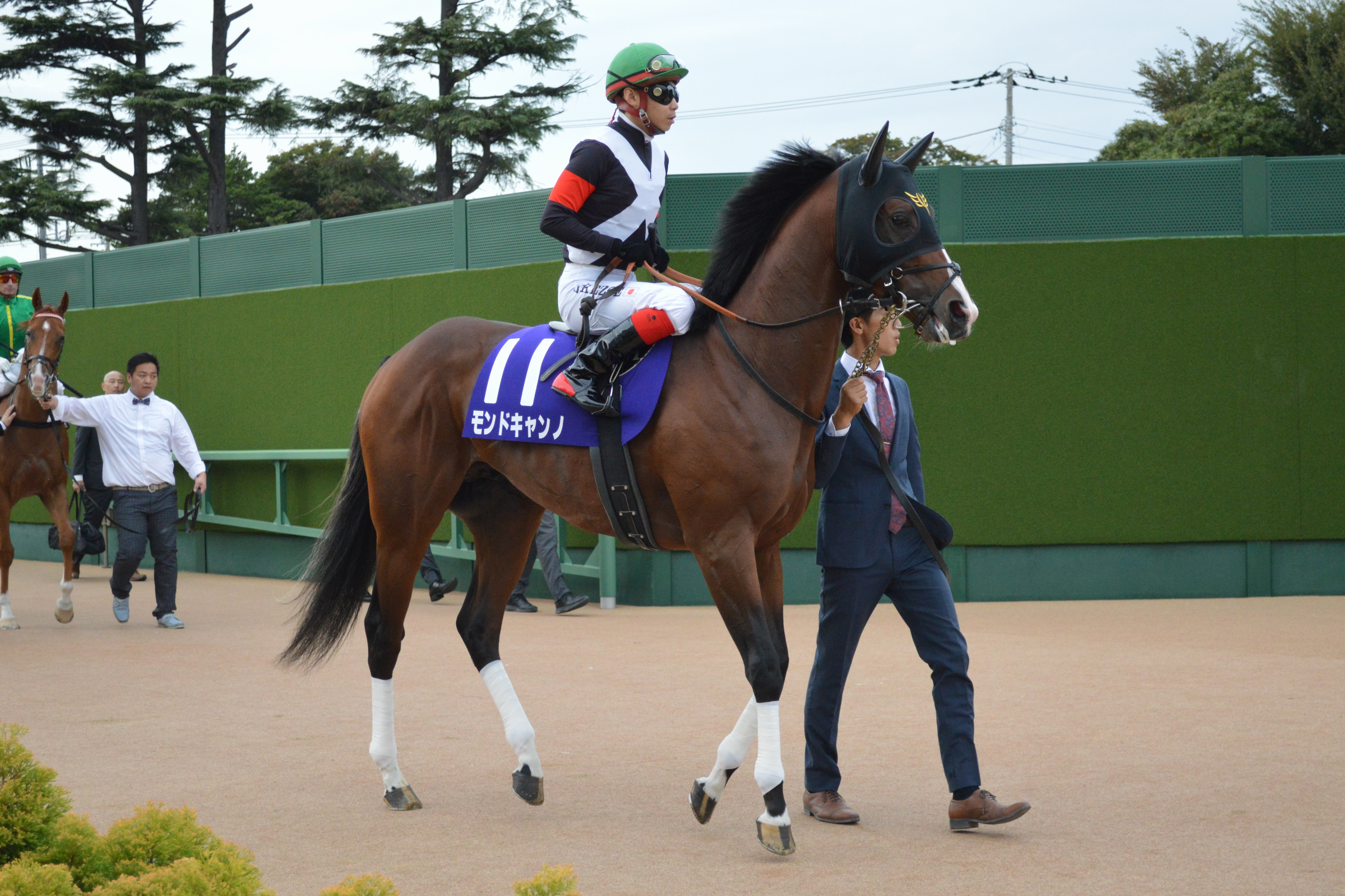 Japanese race horse Monde Can Know at Nakayama racecourse. Nakayama (JPN) 1 Oct 2017Sprinters Stakes (Grade 1) (3yo+) (Turf) 6f Firm RankHorse NameOddsAgeWgtJockeyTrainer1stRed Falx (JPN)11/5FH69-0Mirco DemuroTomohito Ozeki14thMonde Can Know (JPN)30/1C38-9Kenichi IkezoeTakayuki YasudaOthers are omitted. (16 horses entered in a race.)